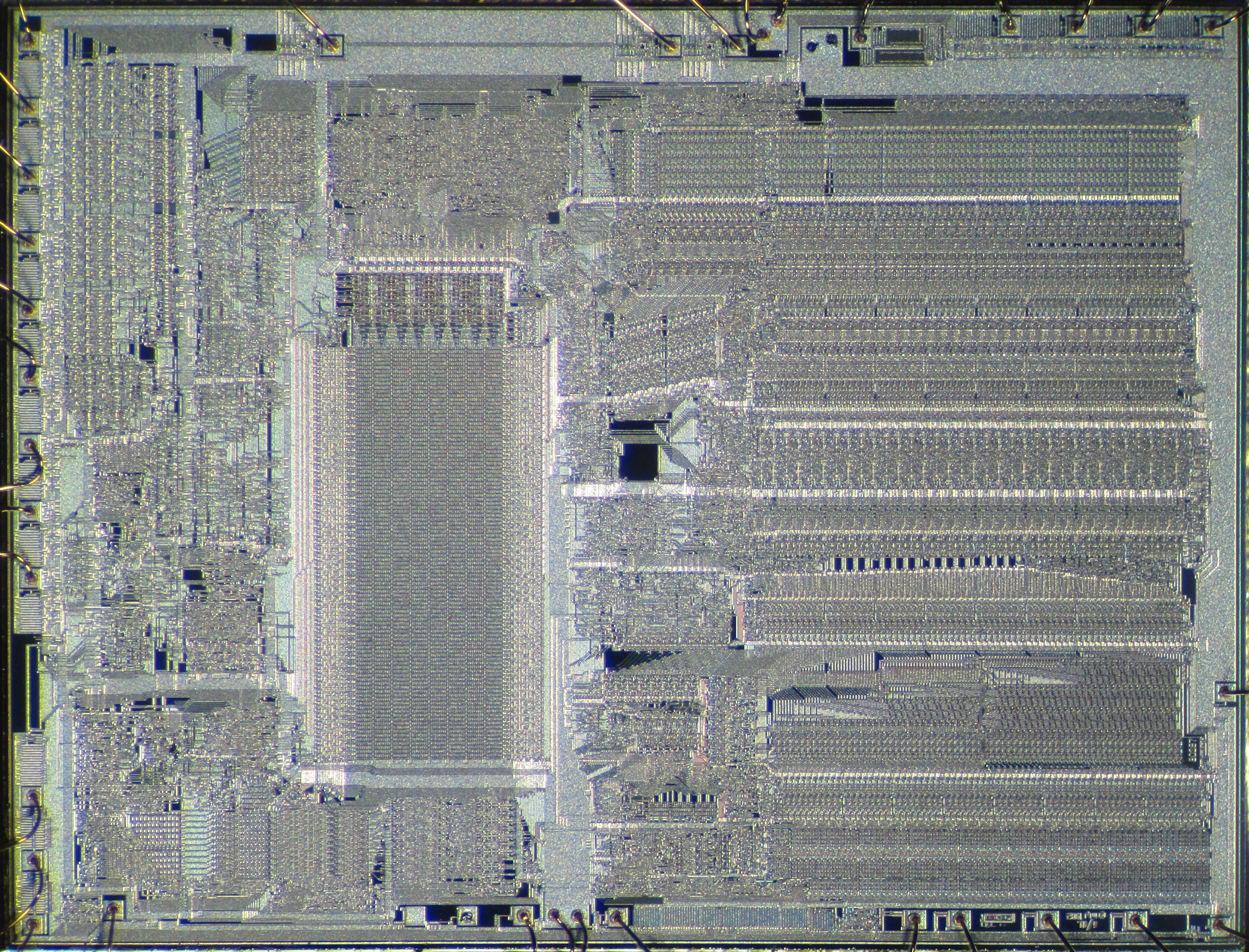 Die shot of Intel 80287 math (floating point) coprocessor (C80287-3, S40151).